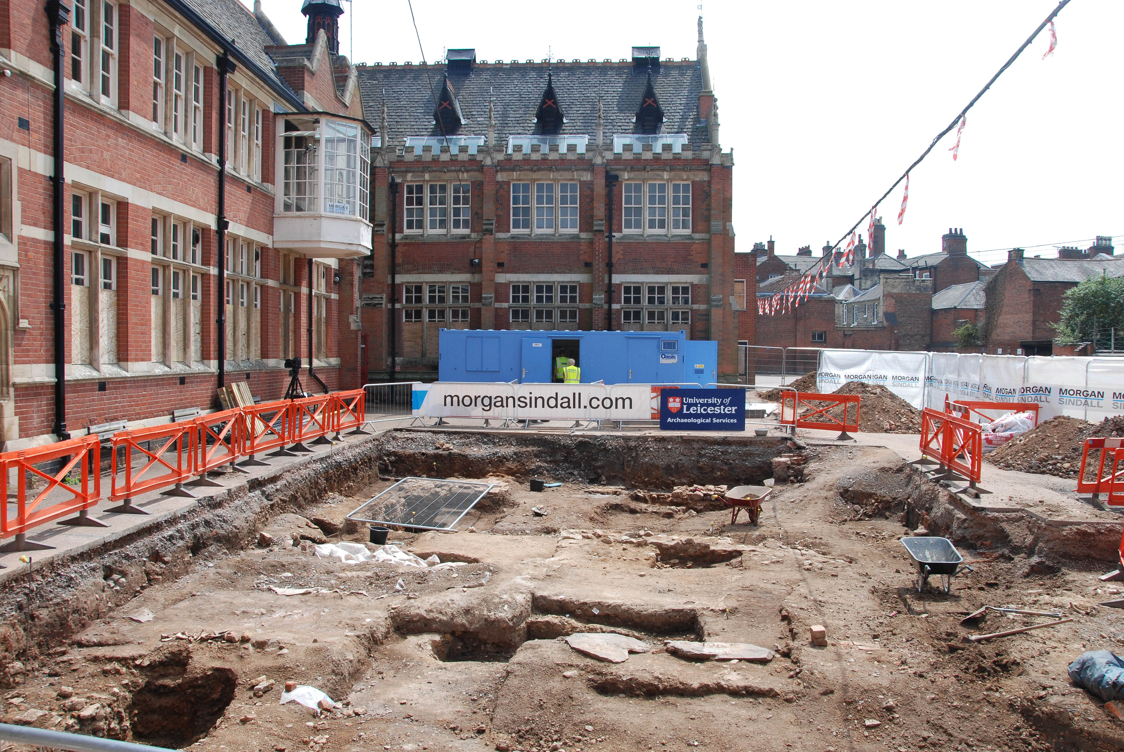 Excavation in July 2013 at the site of the former Grey Friars, Leicester